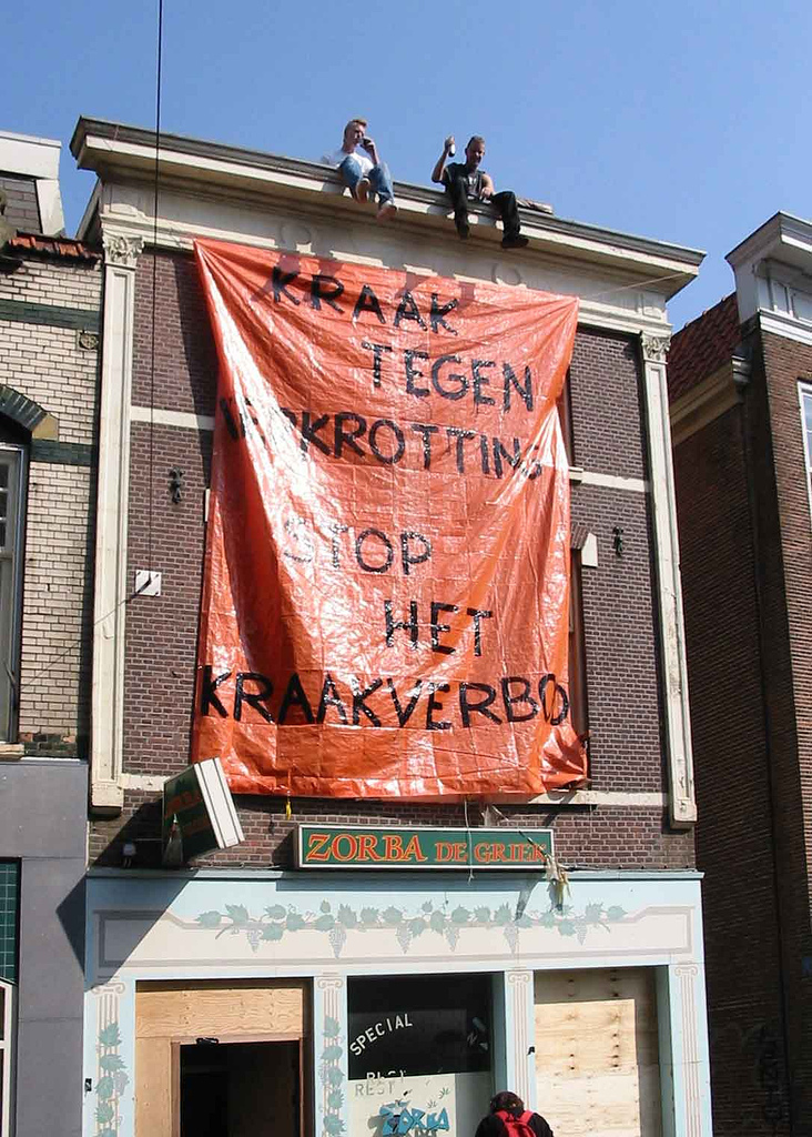 Squatting on De Grote Markt, Haarlem Center, The Netherlands.